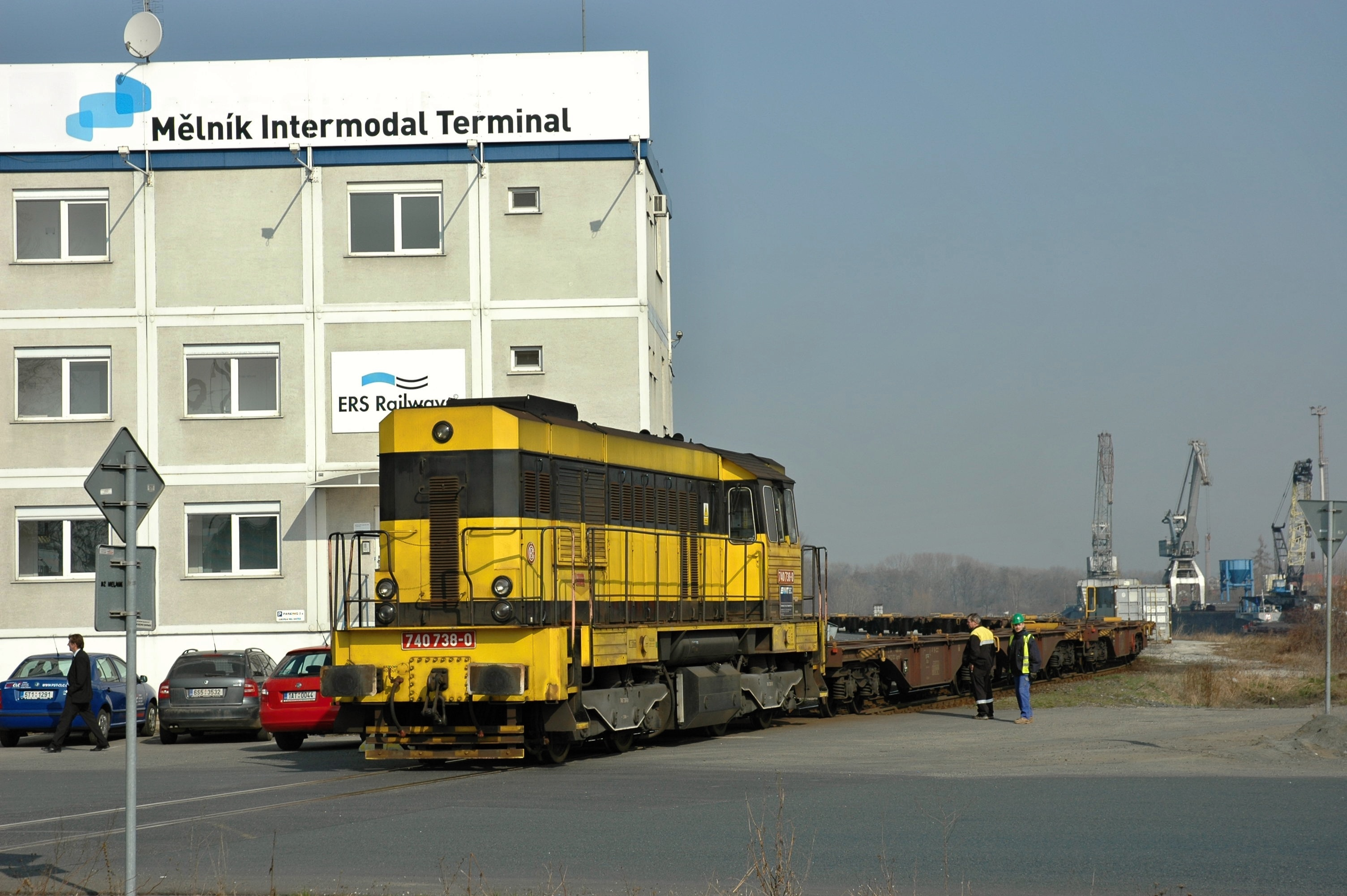 Locomotive 740.738 of AWT is shunting with container platforms; Mělník Intermodal Terminal, port of Mělník, Czech Republic